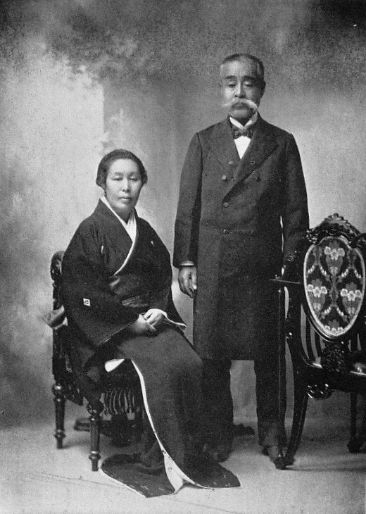 Motosuke Nomura and his wife